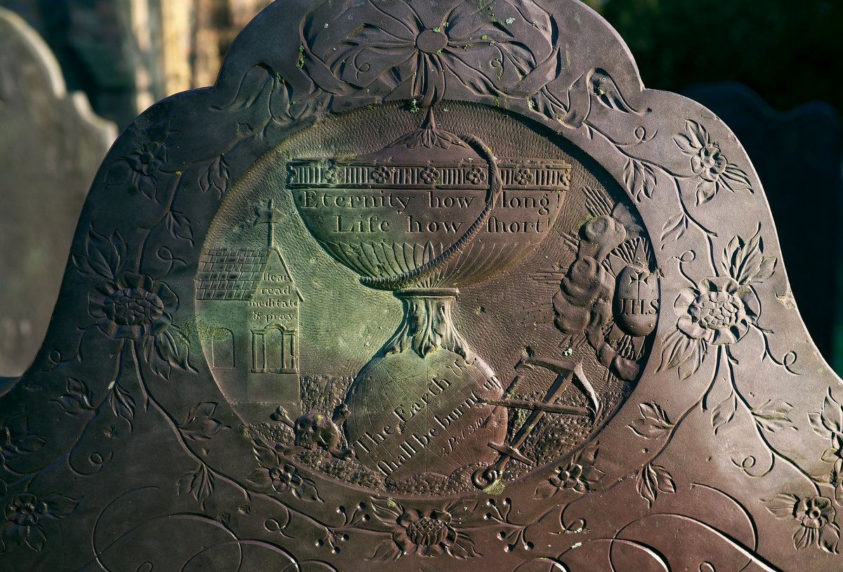 Later 18th century Swithland slate headstone by Hind. Urn encircled by ouroboros above flaming Globe. The use of Biblical quotations was common at this time.